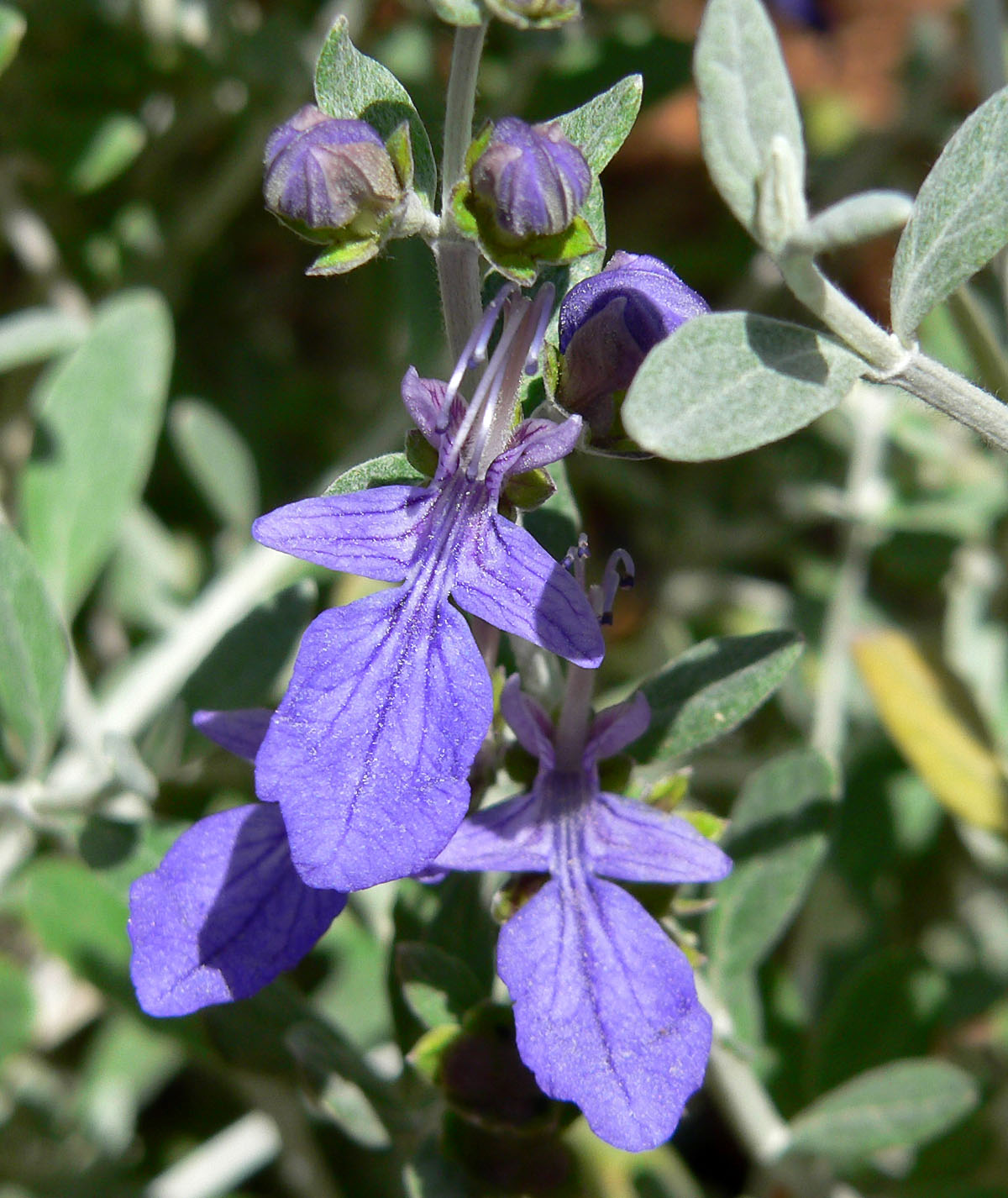 Teucrium fruticans 'Azurea' at the Springs Preserve garden, Las Vegas, Nevada